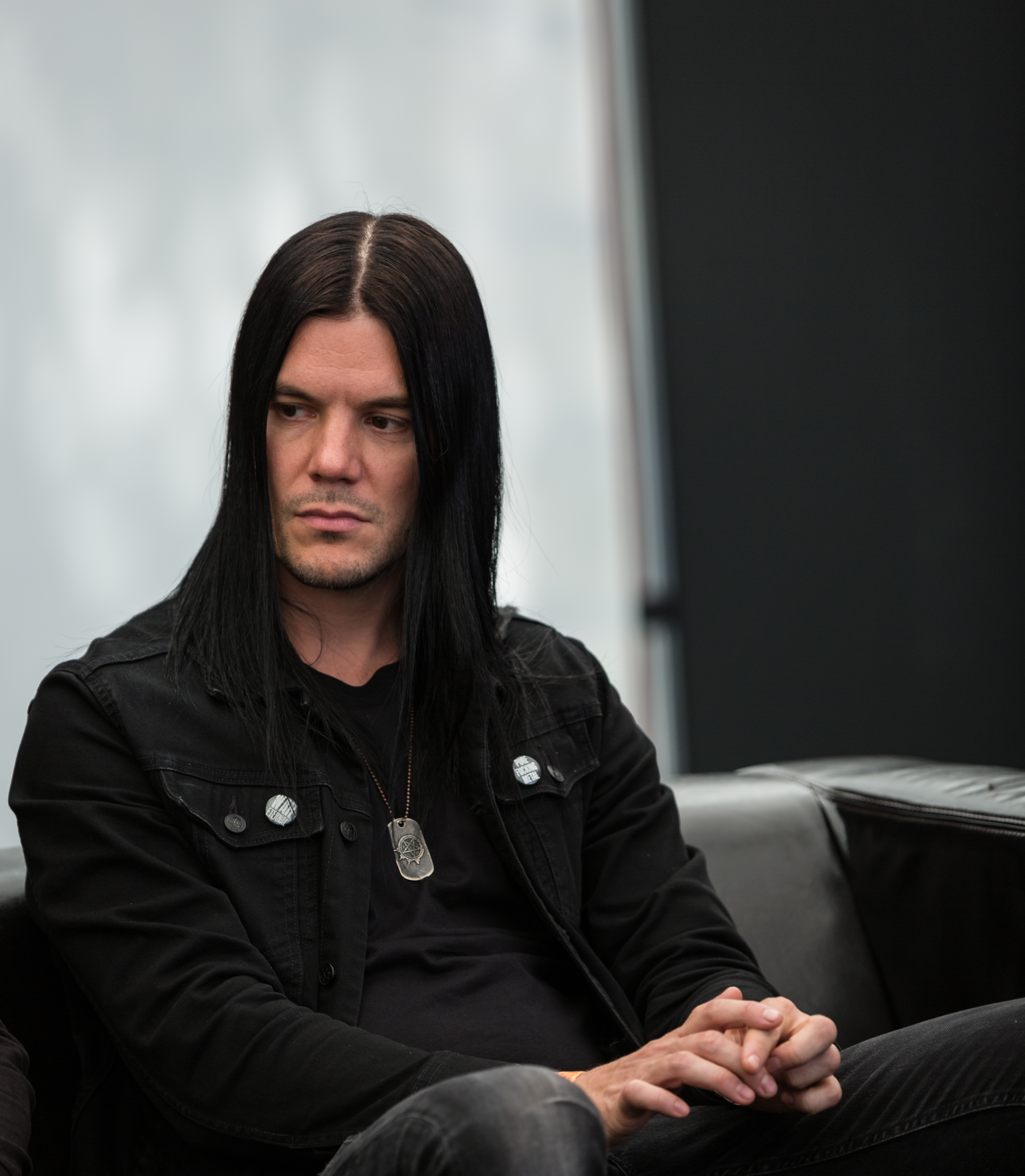 Arch Enemy - Wacken Open Air 2016